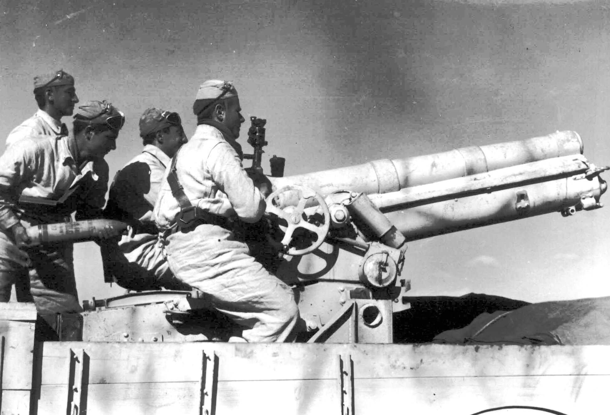 Italian mobile artillery unit in the Bir el Gobi desert